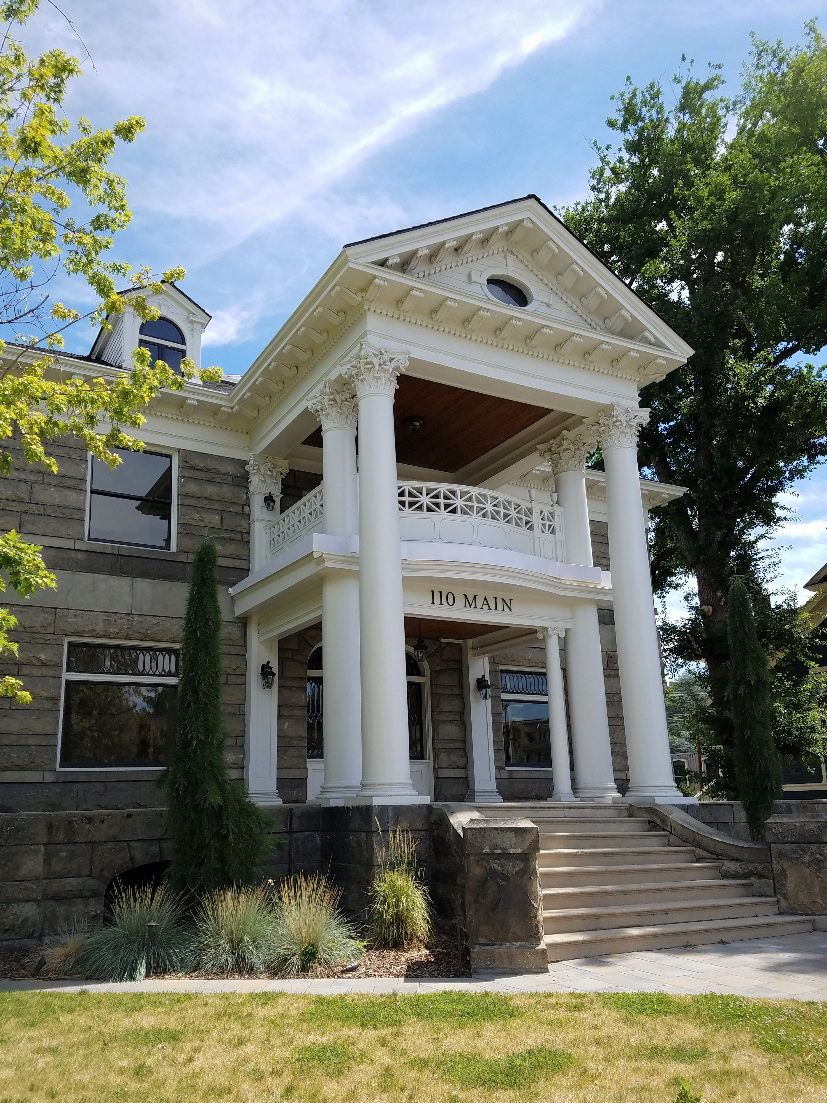 The Timothy Regan House (1905) is part of the West Warm Springs Historic District in Boise, Idaho.